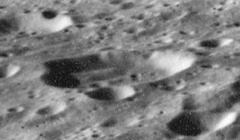 Oblique view of Tsu Chung-Chi, on the far side of the moon, facing north. Sun angle 20 deg, camera altitude 116 km.